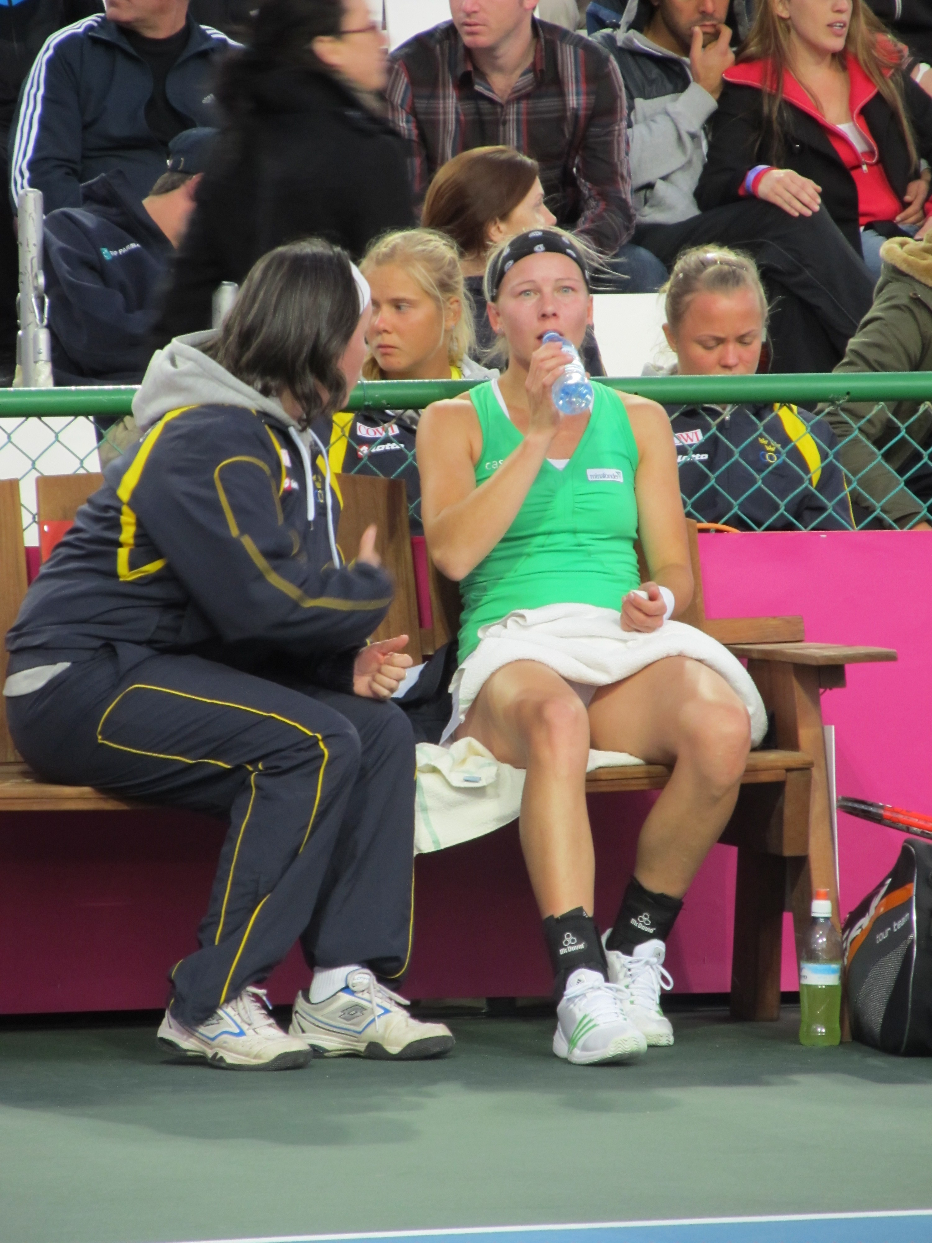 The tennis player Johanna Larsson of Sweden during her match against Agnieszka Radwaska of Poland in the 4th day of Fed Cup Group I 2012 Europe/ Africa in Eilat, Israel